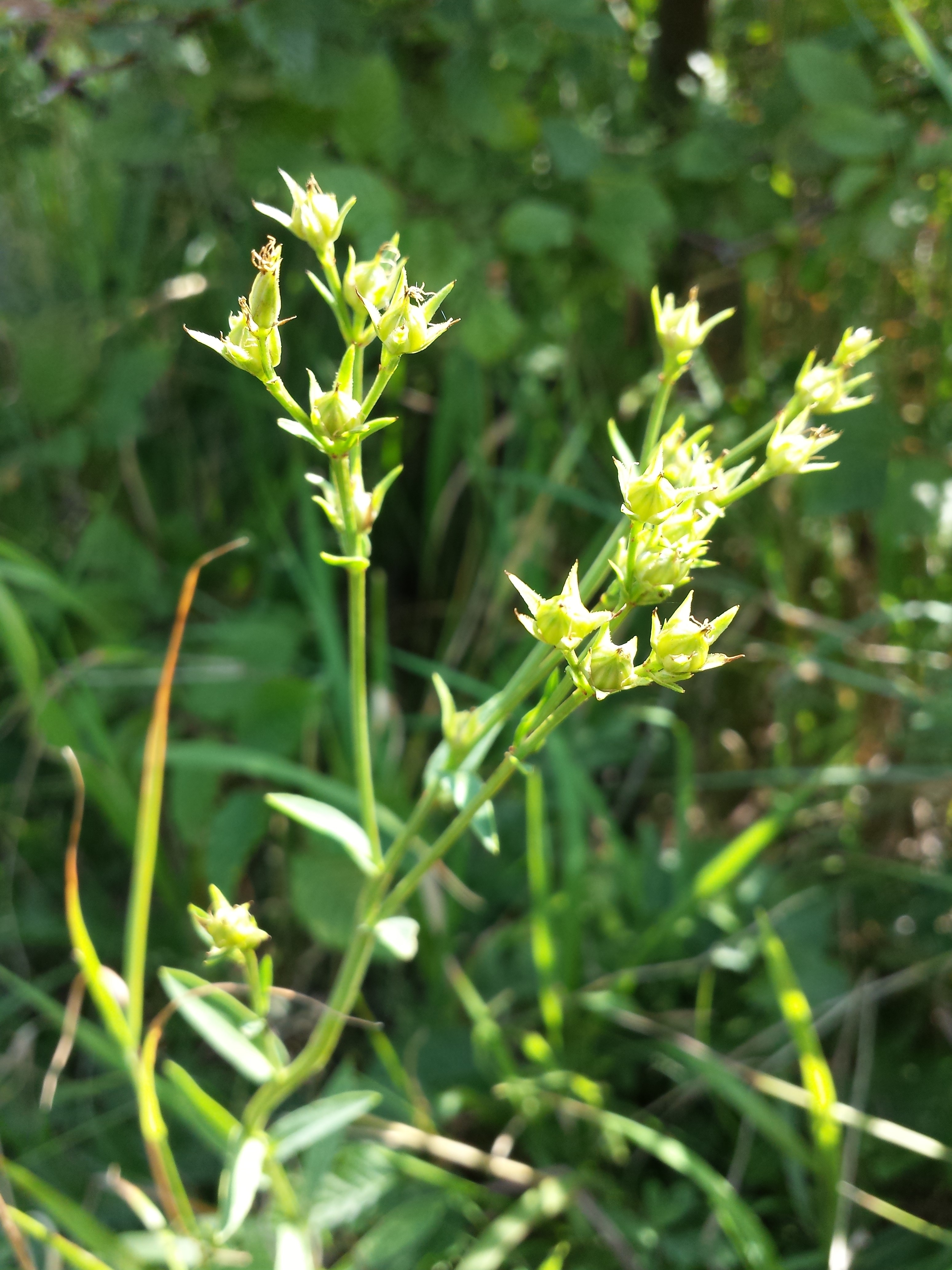 Infructescence Taxon: Linum flavum (sensu Fischer et al. EfÖLS 2008 ISBN 978-3-85474-187-9) Location: Steinbacher Heide, Leiser Berge, district Korneuburg, Lower Austria - ca. 450 m a.s.l. Habitat: dry grassland